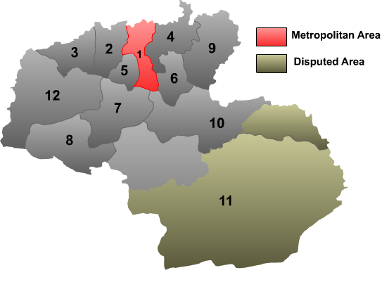 Map of Shannan prefecture in Xizang (Tibet) Autonomous region